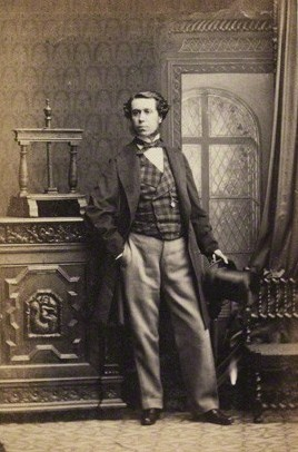 Portrait of George Harley (1829–1896), Scottish physician.